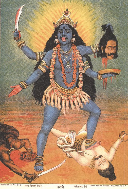 Iconic painting of Goddess Kali with one foot perched on an unconscious Śiva, Holding Darika's head. }